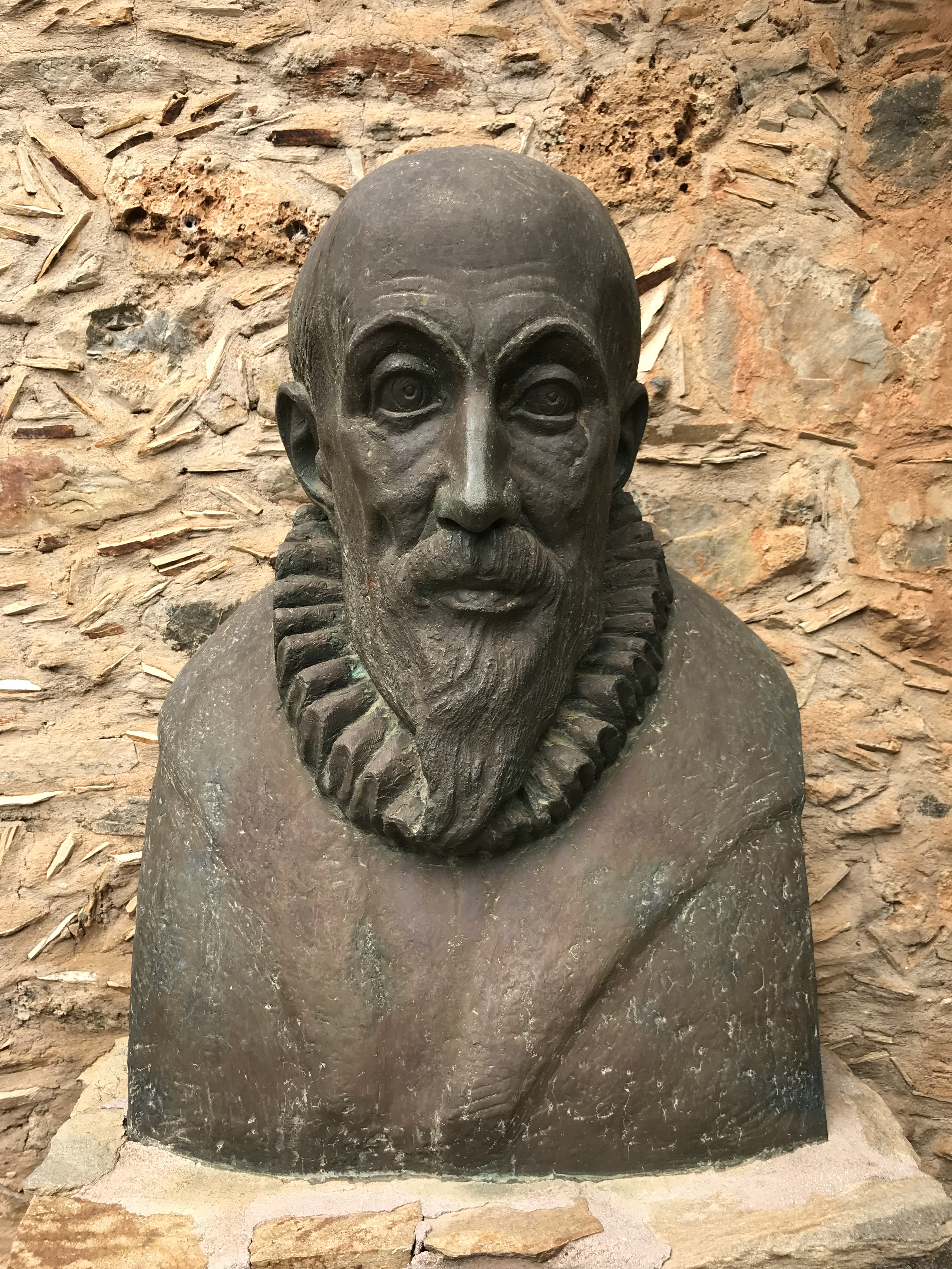 Bust of El Greco at El Greco Museum, Fodele, Crete, Greece